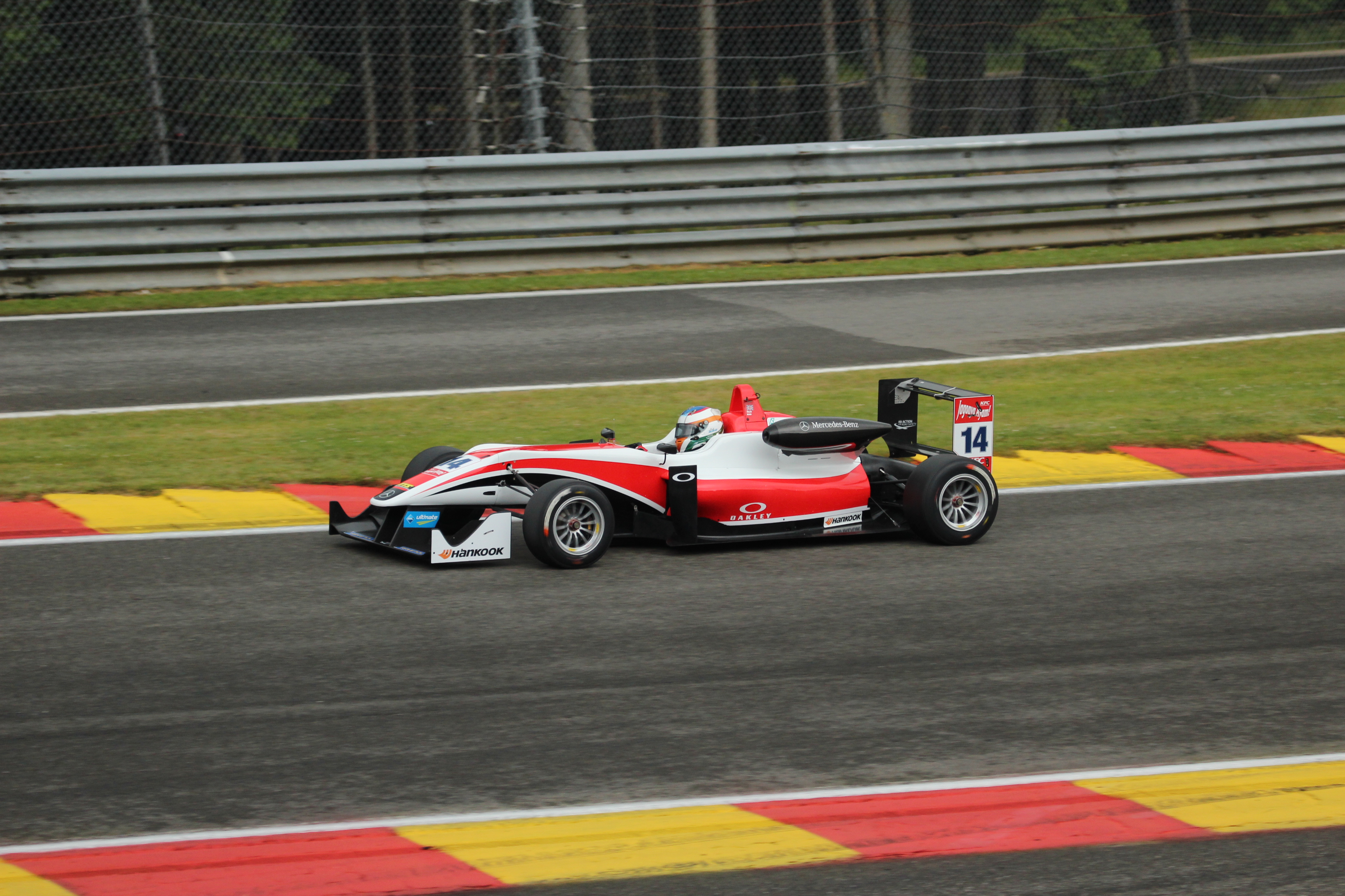 Matthew Rao at Spa in 2015, European Formula 3 Championship